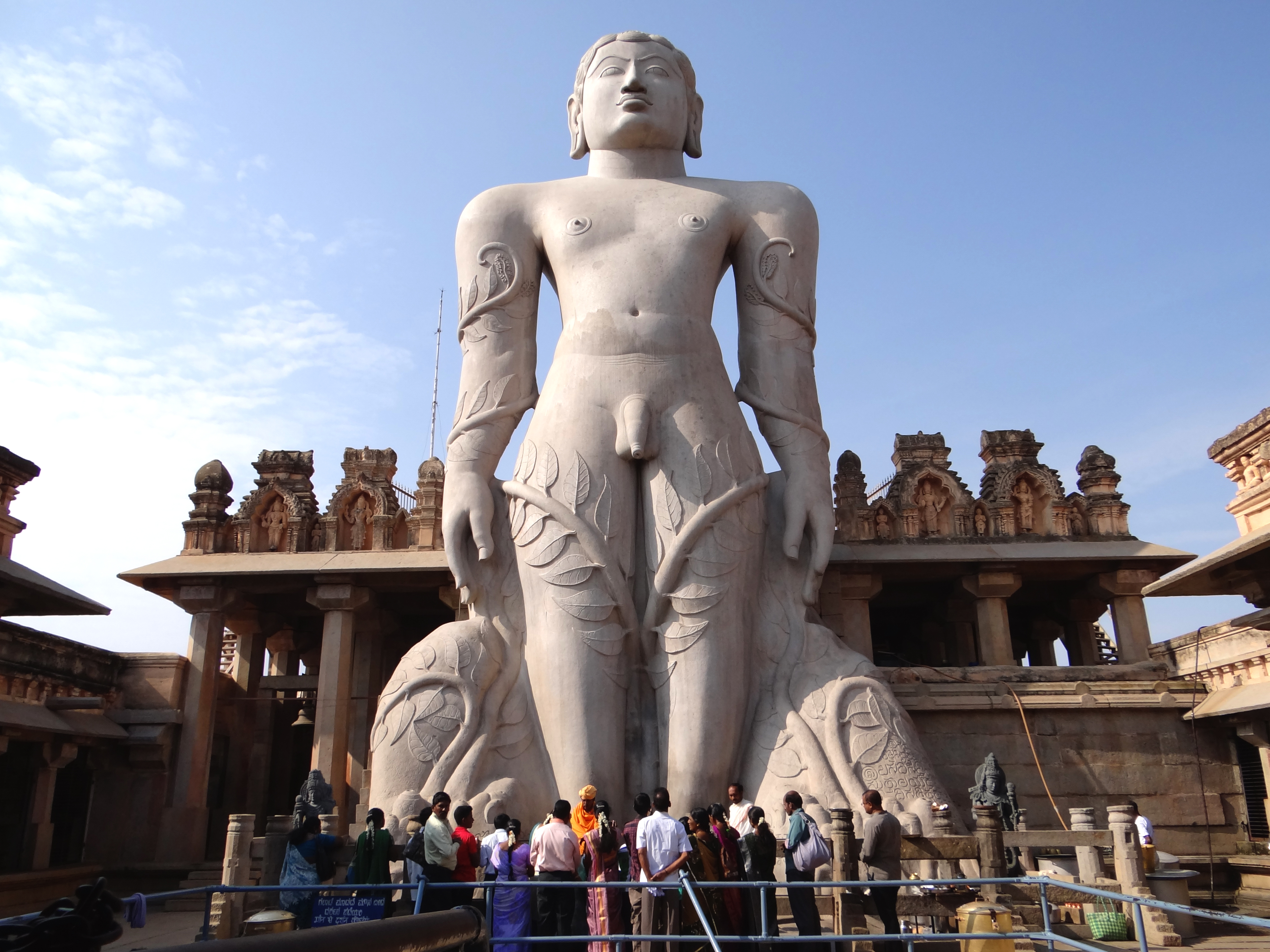 The 57-feet tall statue of Bahubali, referred to as ‘Gomateshwara’, is situated atop Vindhyagiri. It is the largest monolith statue in the world. It was installed by the Ganga minister and commander Chavundaraya in the 10th century AD. The base of the sculpture has inscriptions carved in Kannada, Tamil and Marathi languages. For language historians this is also an important site, as the earliest known examples of Kannada and Marathi writing are found on Vindhyagiri hill. Hundreds of thousands of pilgrims, devotees, and tourists from all over the world flock to the statue once in every 12 years for an event known as Mahamastakabhisheka. The most recent Mahamastakabhisheka was held in the year 2018. The statue is voted the first among the seven wonders of India.